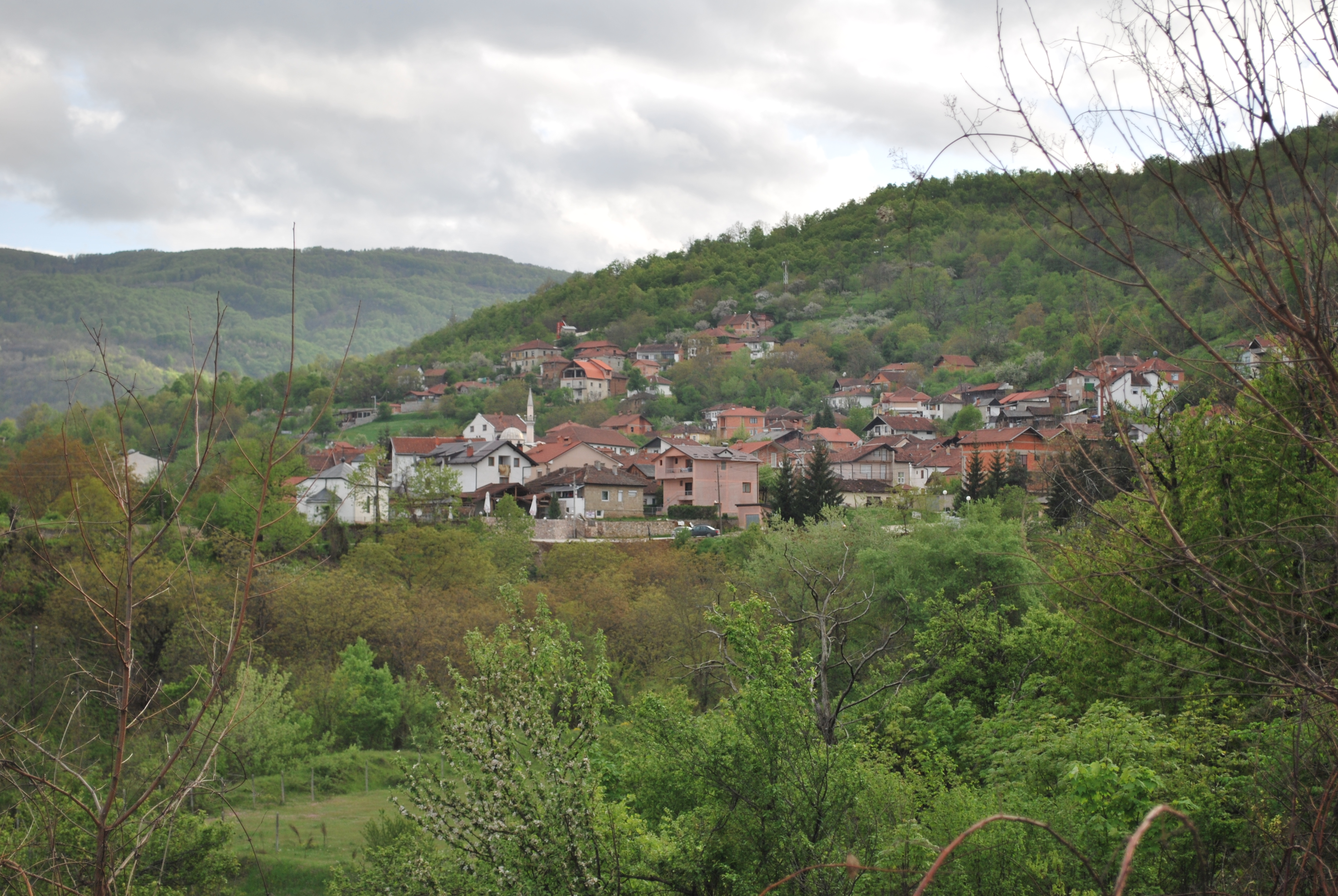 Vrutok, Macedonia